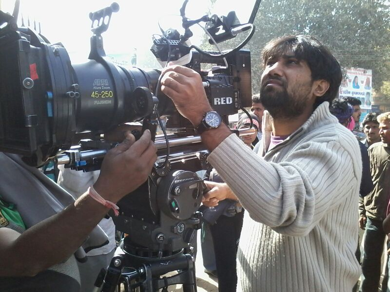 Dev Agarwal shooting for the film City lights.